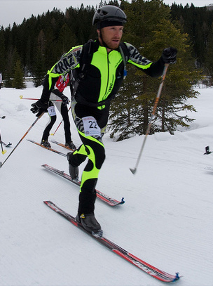 Matteo Pedergnana (N° 22; right) at the 2nd Palaronda SkiAlp, 2010